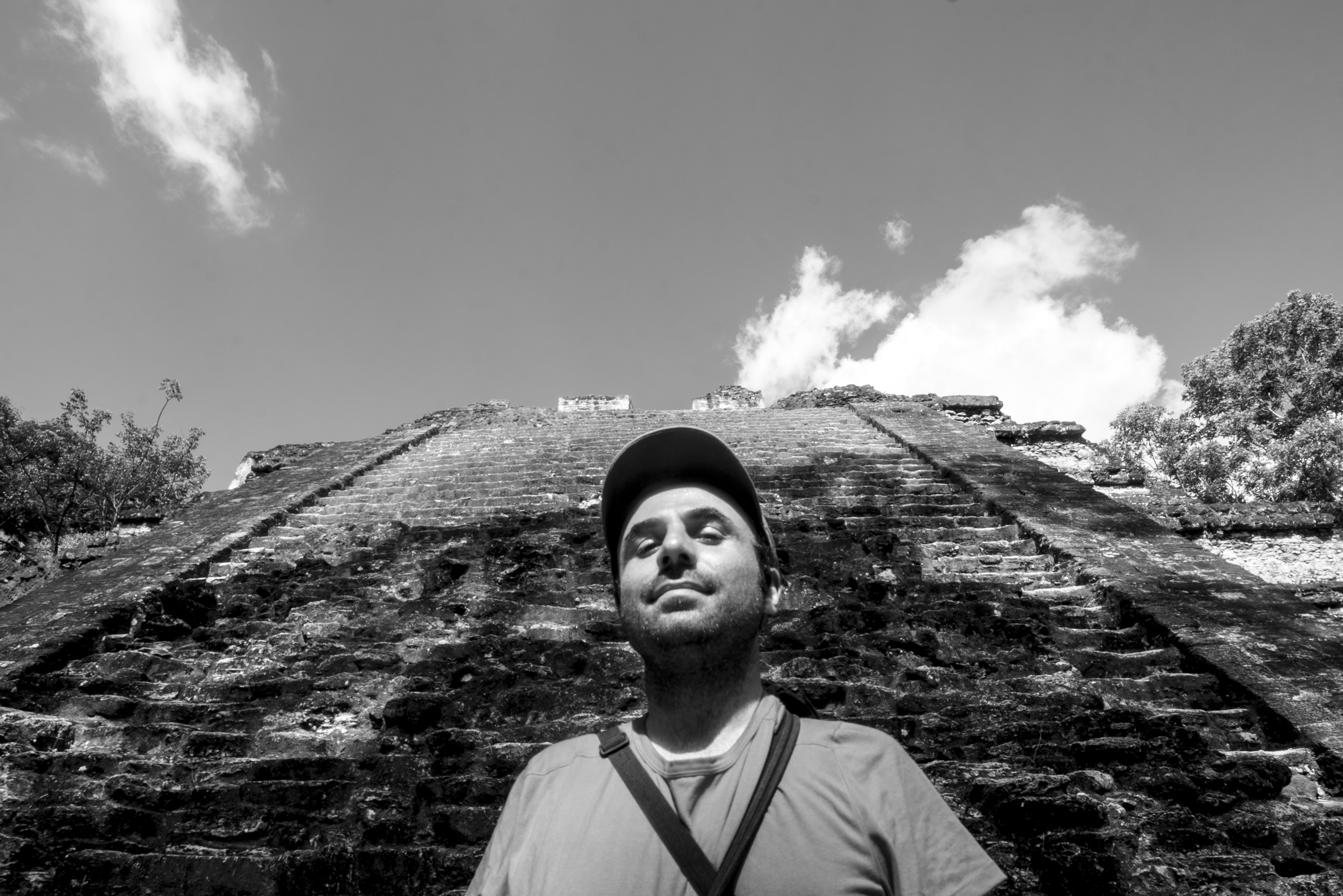 Black and white portrait of Colombian filmmaker and cinematographer Arturo Almanza K in a Mayan pyramid in Tikal, Guatemala during a documentary shoot